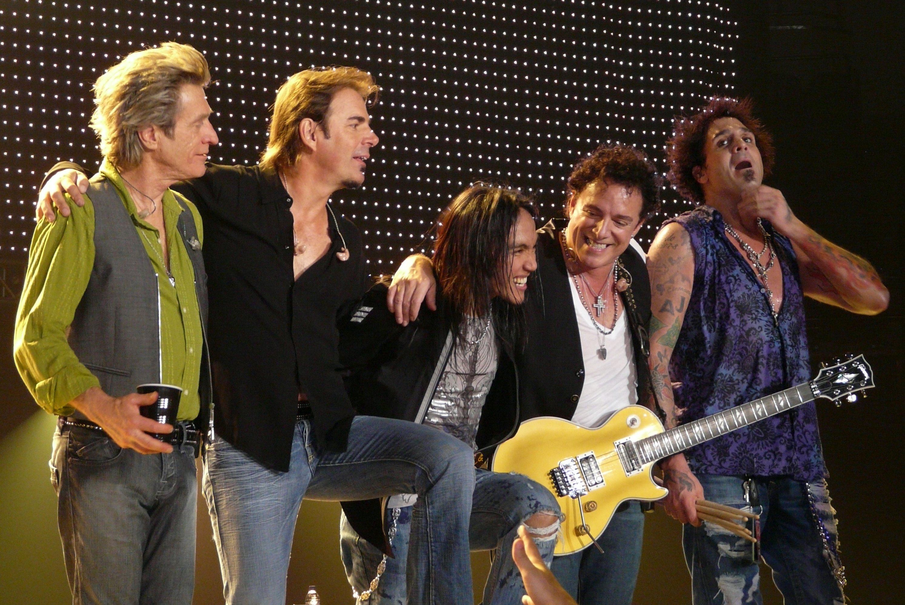 JOURNEY, Live in Minneapolis, MN on September 16, 2008, L-R: Ross Valory, Jonathan Cain, Arnel Pineda, Neal Schon, Deen Castronovo. Photo by Matt Becker